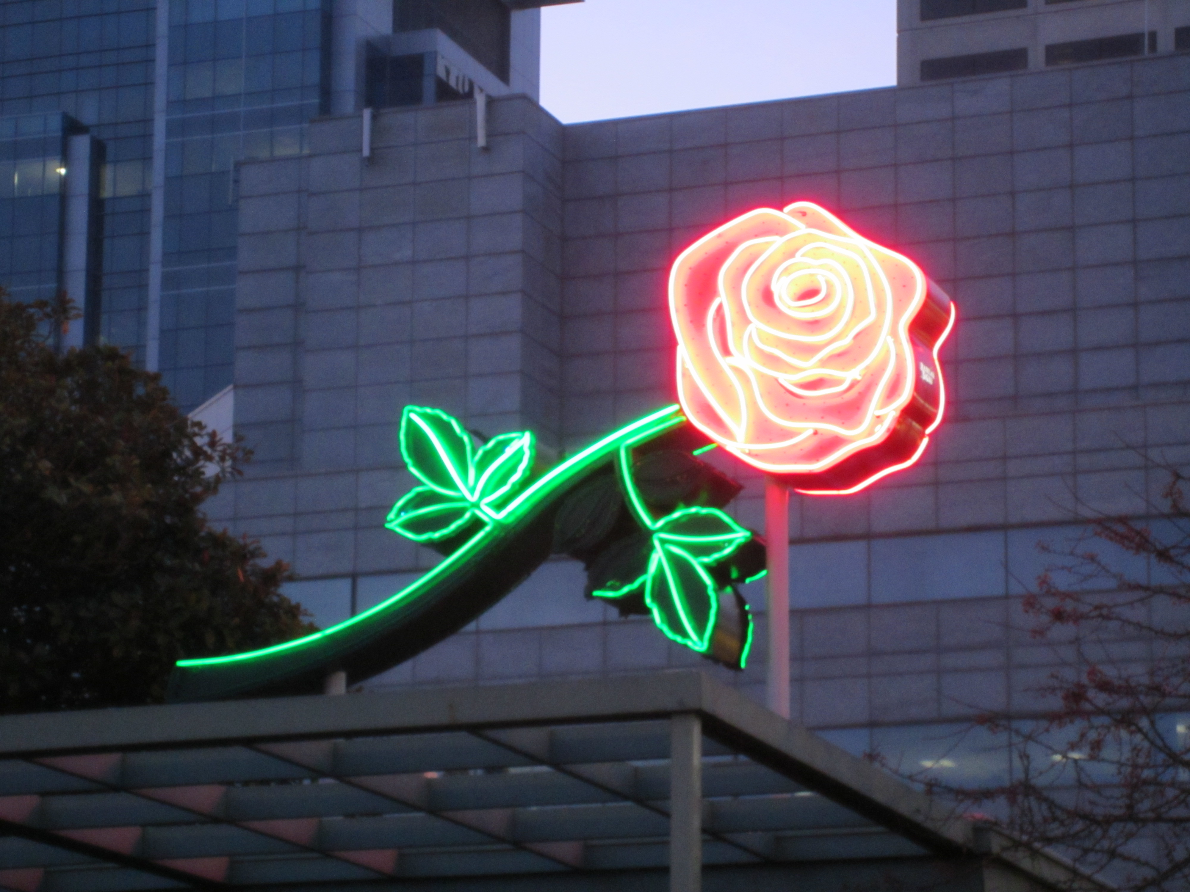 Neon rose at the Visitors Information Center in Portland, Oregon in December 2011